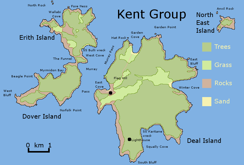 Map of the Kent Group of Islands in Bass Strait Tasmania showing vegetation